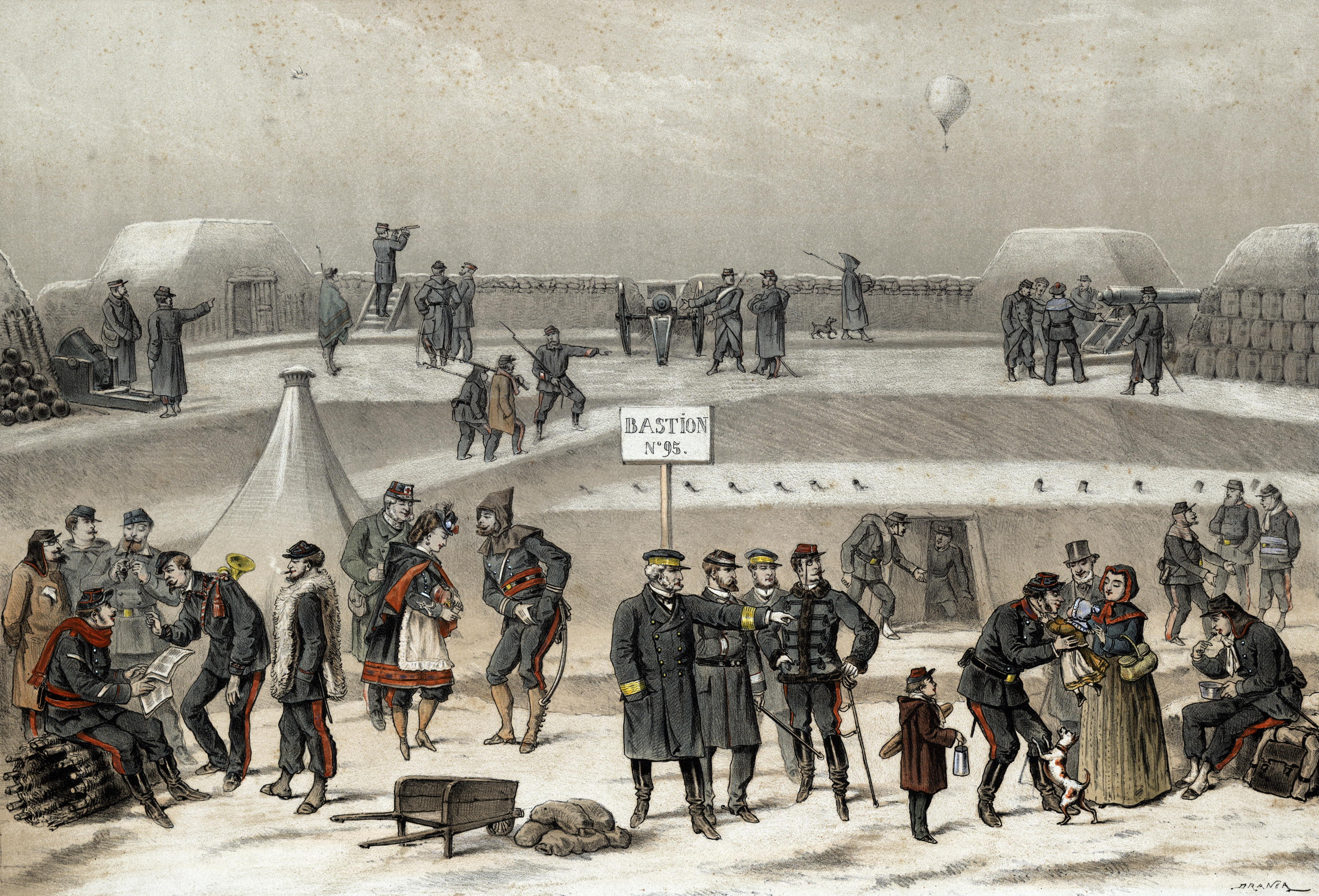 Siège de Paris. Au Bastion. Print shows military life at French fort, "Bastion" no. 95," during the Siege of Paris, 1870. A balloon flies over the fort in the distance.